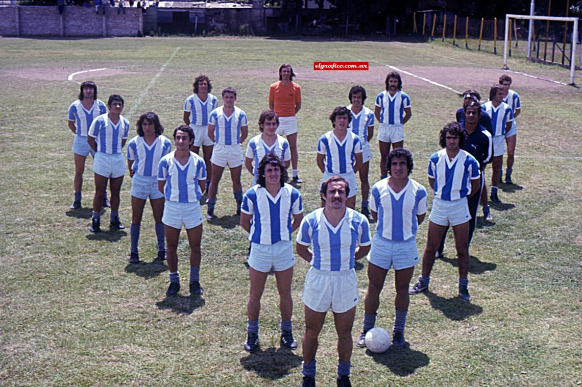 Players of Argentina national football team, during a practise. On the front, Jorge Carrascosa.